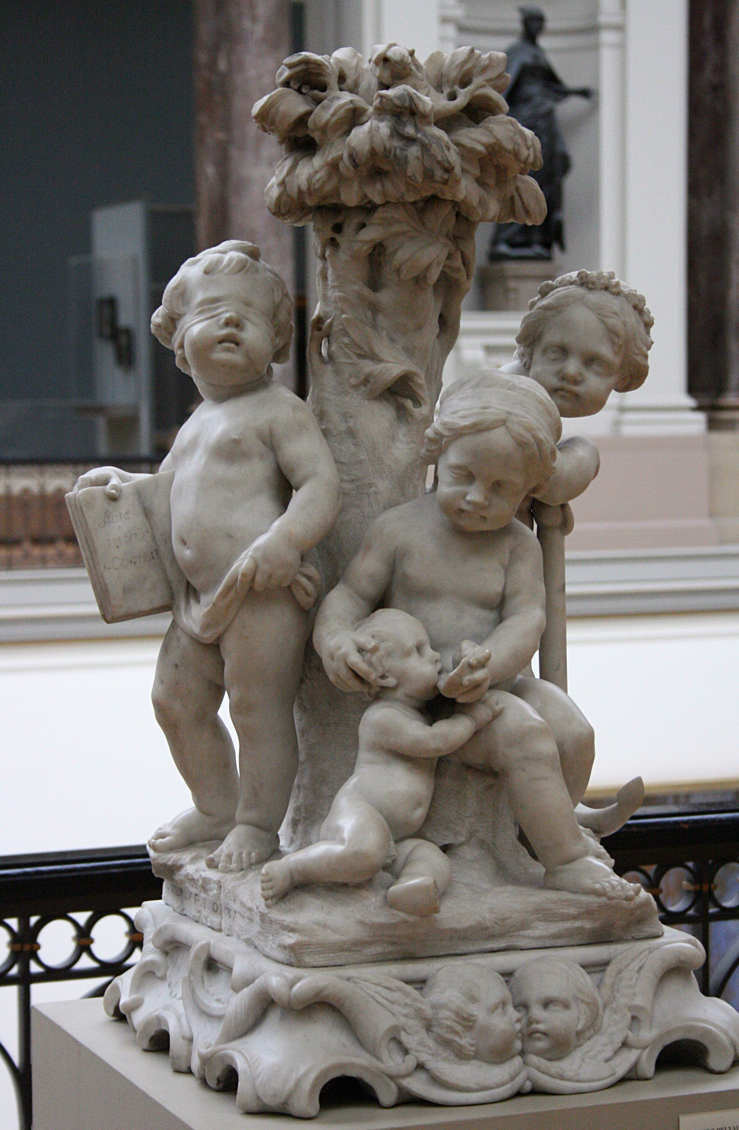 The Cardinal Virtues, by Laurent Delvaux (1696-1778). Musées royaux des Beaux-Arts de Belgique, Brussels (Belgium)